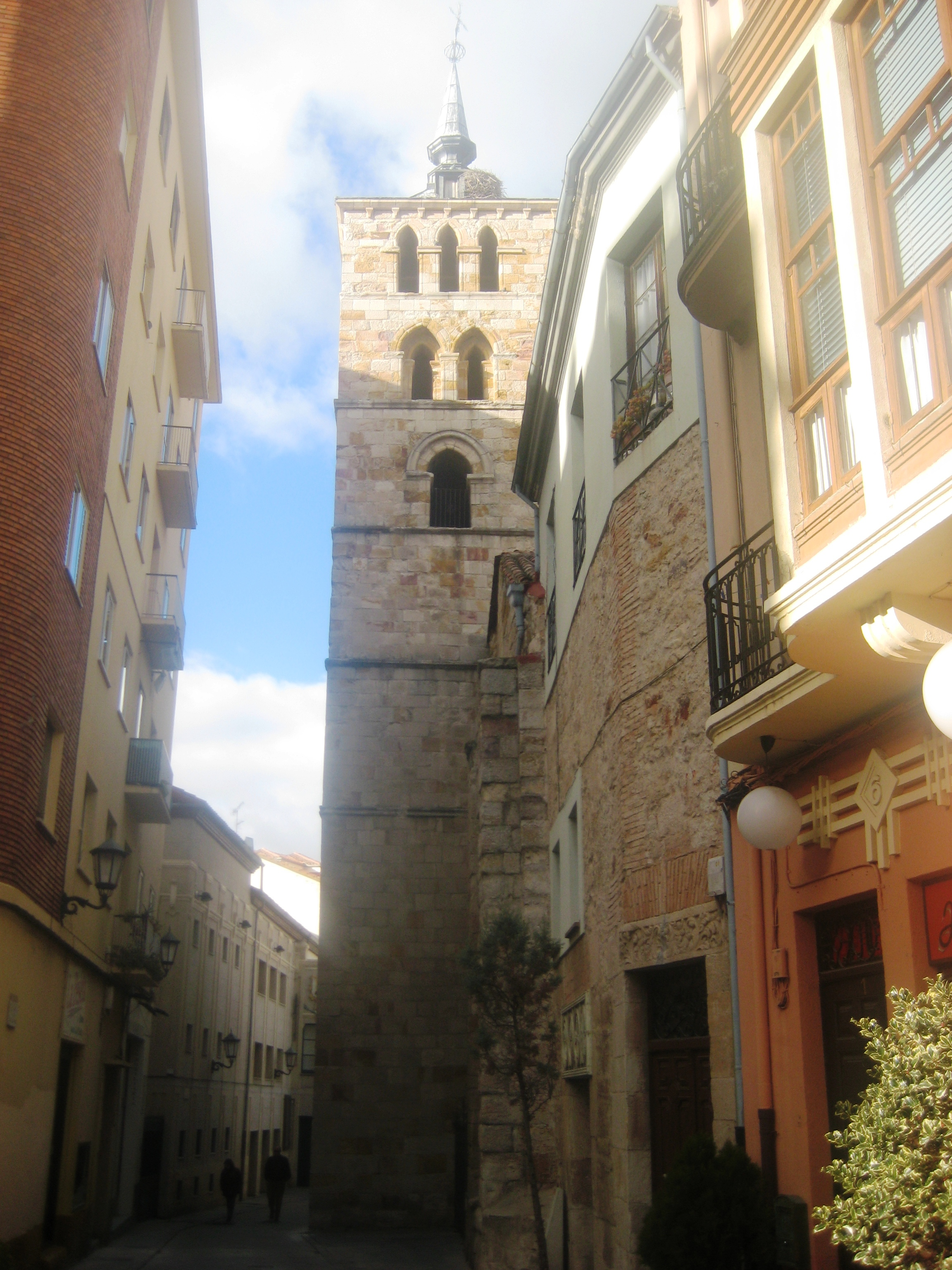 Tower of the church of Saint Vincent, Zamora, Spain.